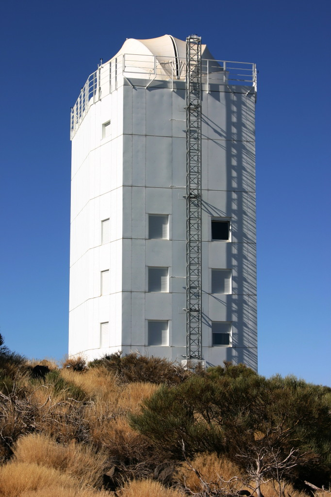 Solar Telescope GREGOR at the Teide Observatory, Tenerife, Canary Islands.